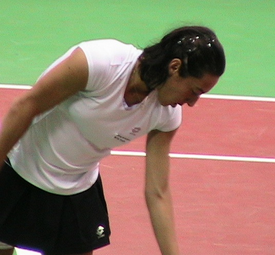 F. Schiavone (ITA) at 2009 Kremlin Cup in Moscow